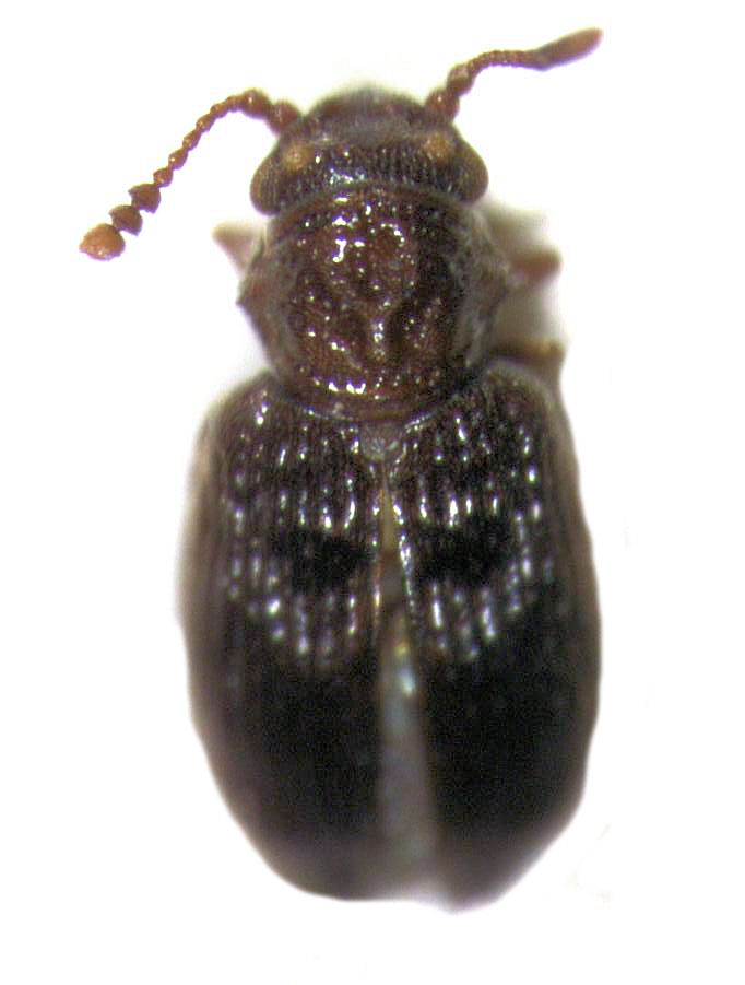 adult Nothoderodontus gourlayi